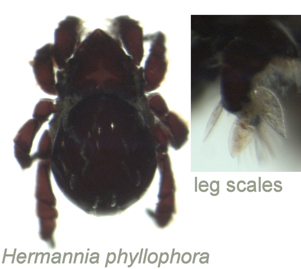 adult Hermannia phyllophora Michael, 1908